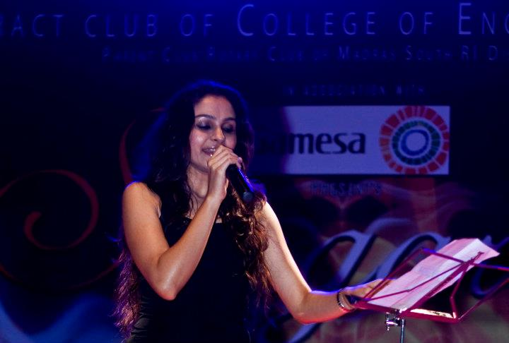 Indian playback singer Andrea Jermiah